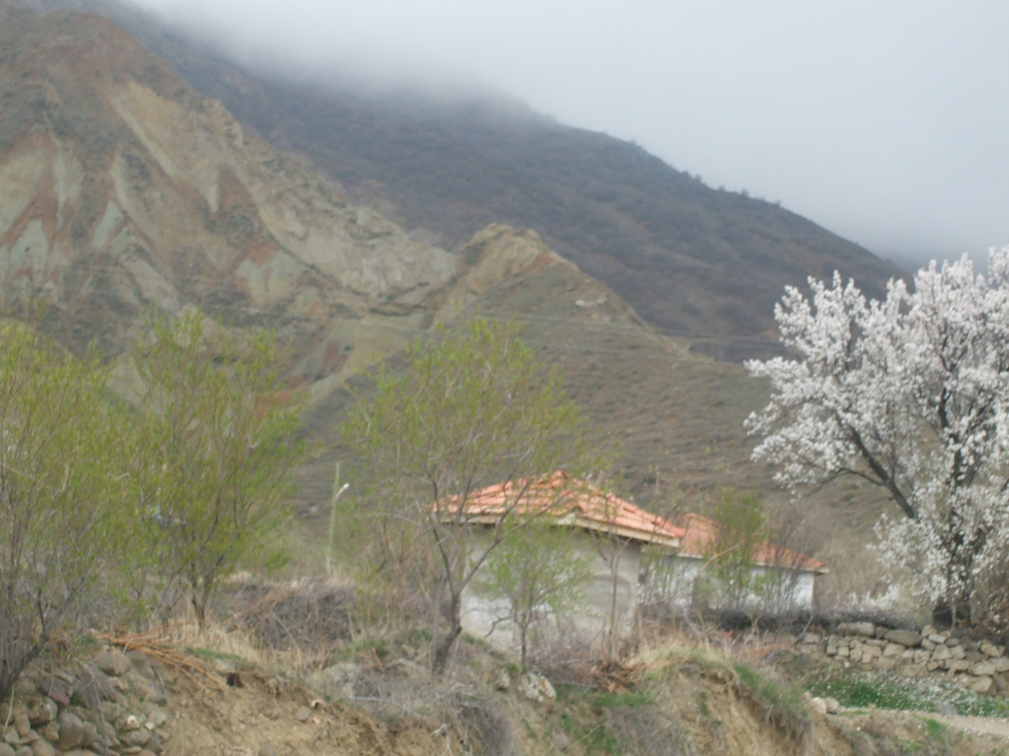 A view from Dağönü, Uğurludağ.